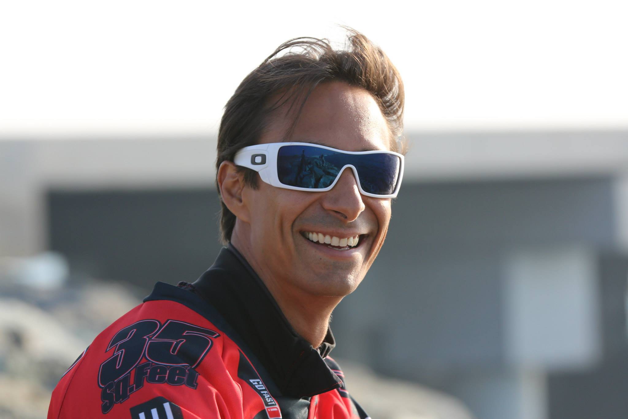 Ernesto Gainza - Extreme Athlete - Stunt Performer - Professional Skydiver